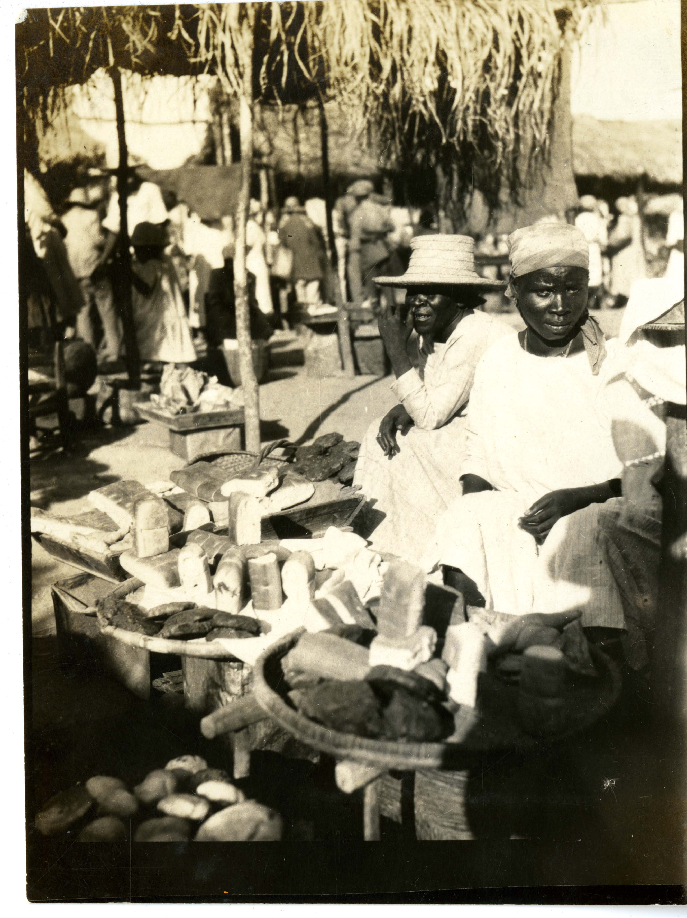 Creator: Watson Perrygo Local number: SIA2008-2521 Summary: The photograph documents Watson Perrygo's field work with Arthur J. Poole in Haiti. Dates: 1928-1929 Collection: SIA RU 7306, Watson M. Perrygo Papers, circa 1880s-1979. Box 2, Folder 10. Repository: Smithsonian Institution Archives View more collections from the Smithsonian Institution.